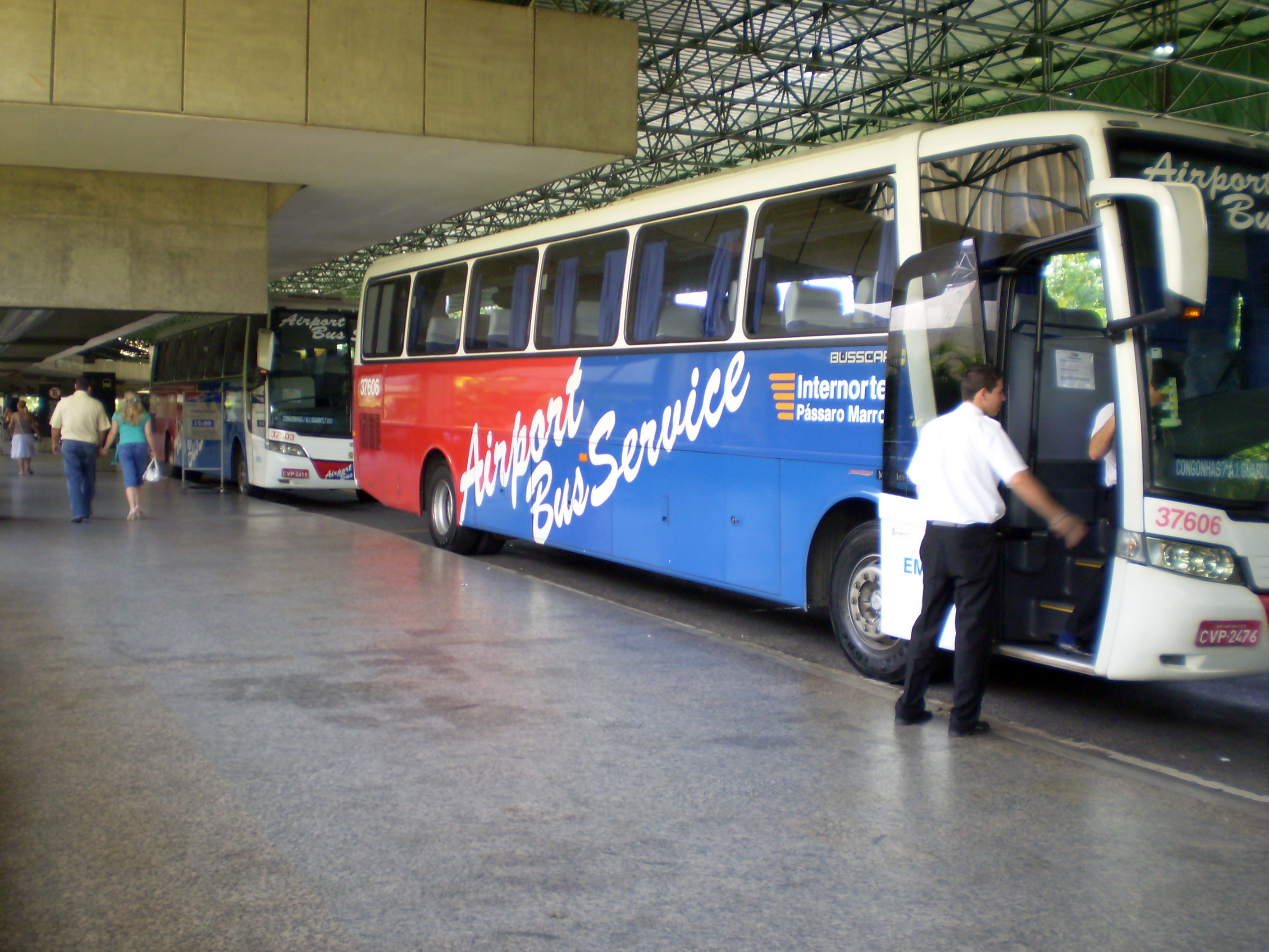 Busscar bus (reg. CVP-2476, #37.606) with Mercedes-Benz chassis of the join venture Internorte-Passaro Marron, operates various lines between São Paulo/Guarulhos International Airport and São Paulo city.